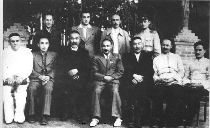 Leaders of Xinjiang Democratic League of Peace Safeguarding.